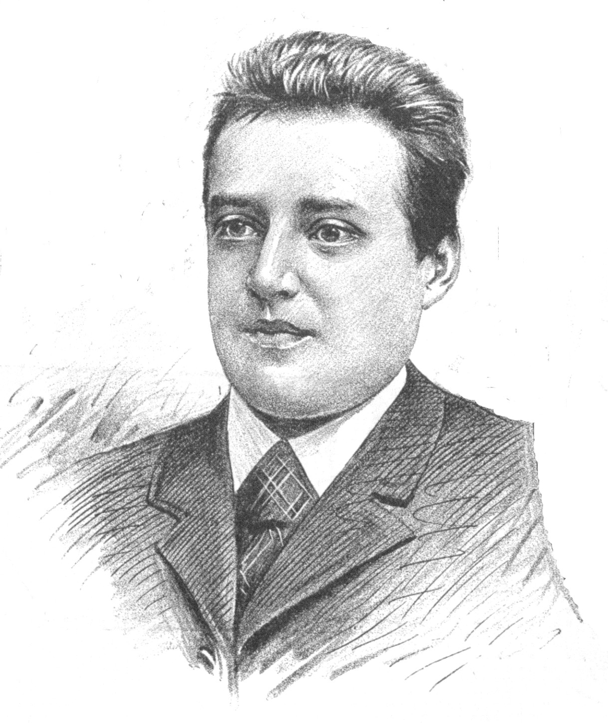 Portrait of Adolf Rakowitsch (1860-1907), Austrian actor. Cropped from a gallery.